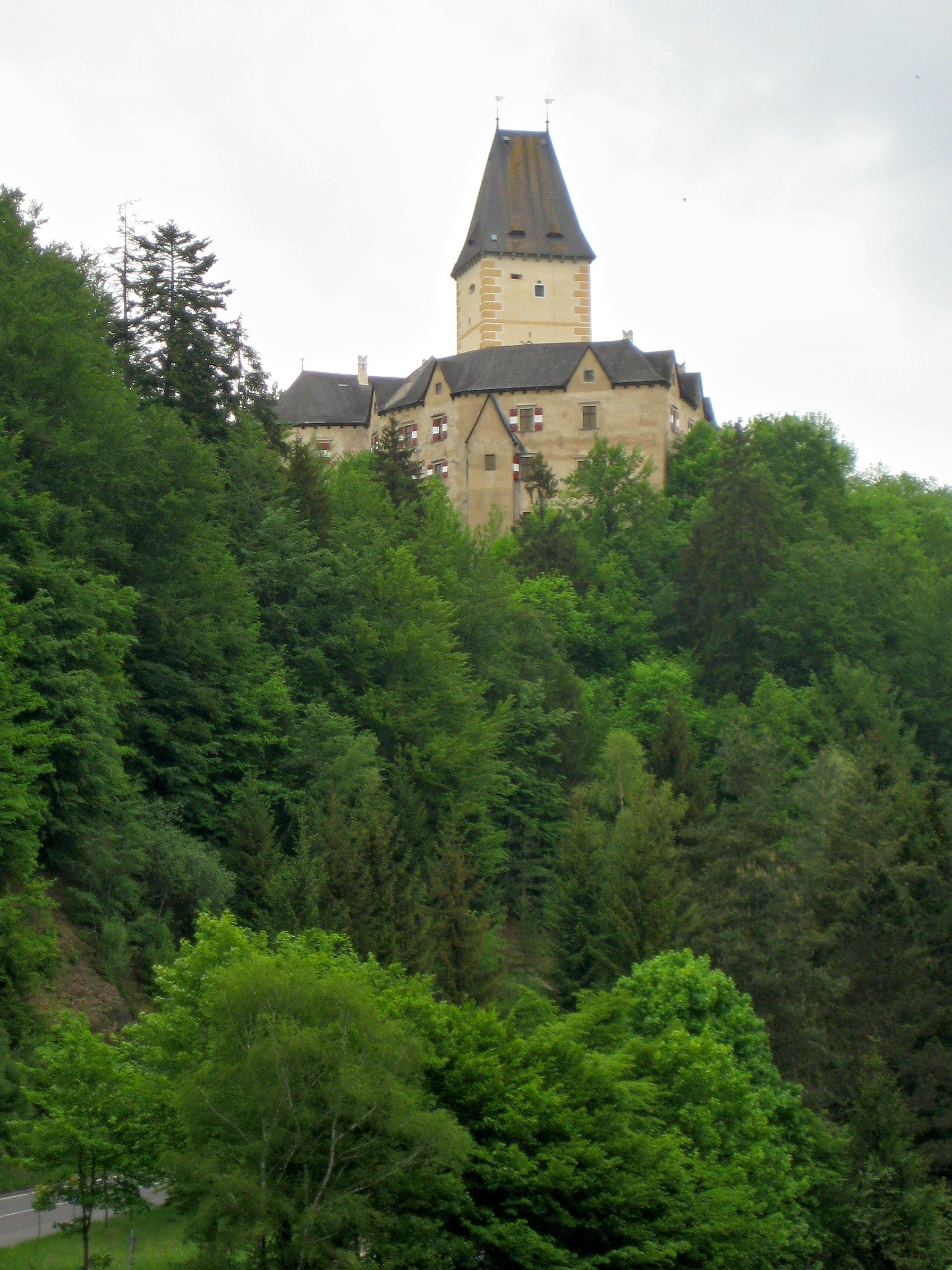 Castle Ottenstein in Lower Austria